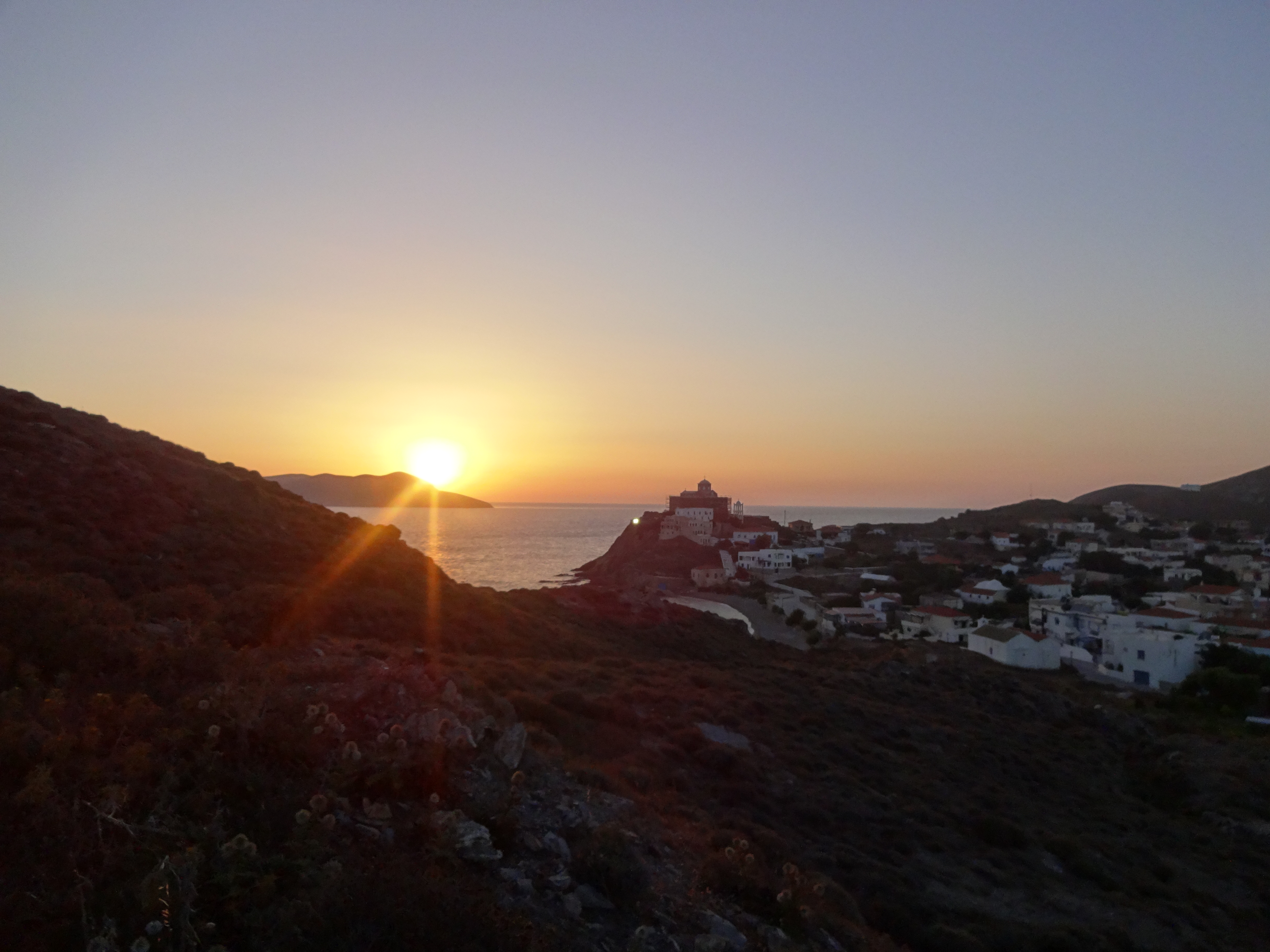 Island of Psara, Greece. Sunset